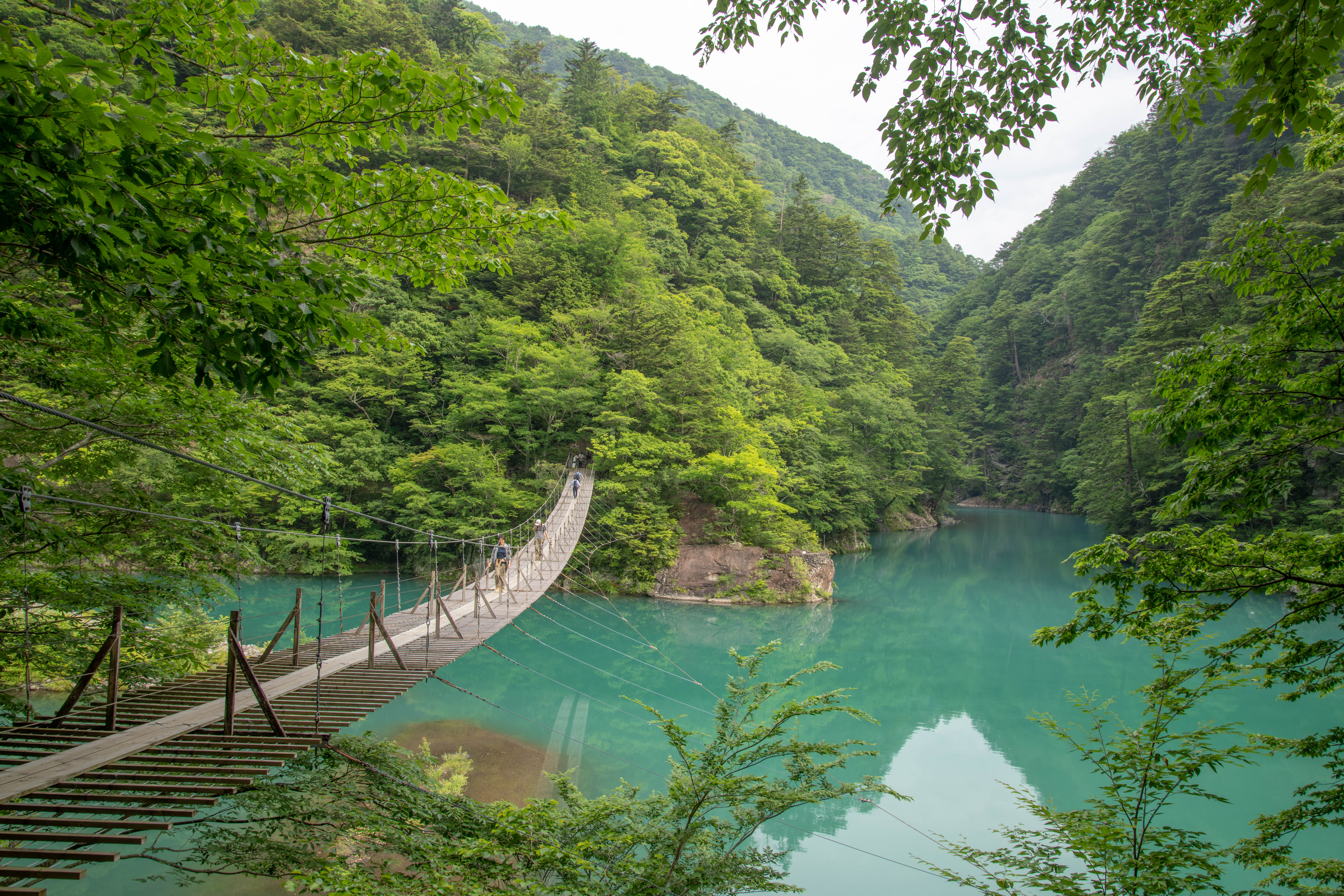 Yume-no-Tsuribashi in Kawanehon, Shizuoka Prefecture, Japan.